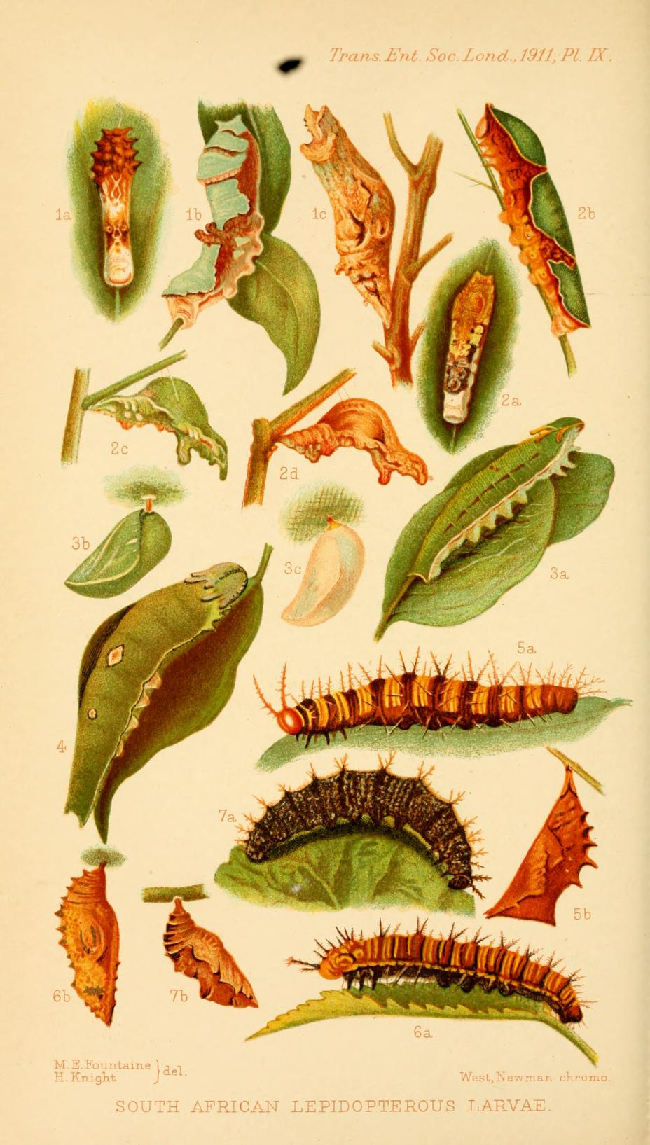 Plate IX South African Lepidopterous Larvae 1911 Transactions of the Entomological Society of London published in IV. Descriptions of some hitherto unknown, or little known, Larvae and Pupae of South African Rhopalocera, with notes on their Life‐histories. (Q63967958)